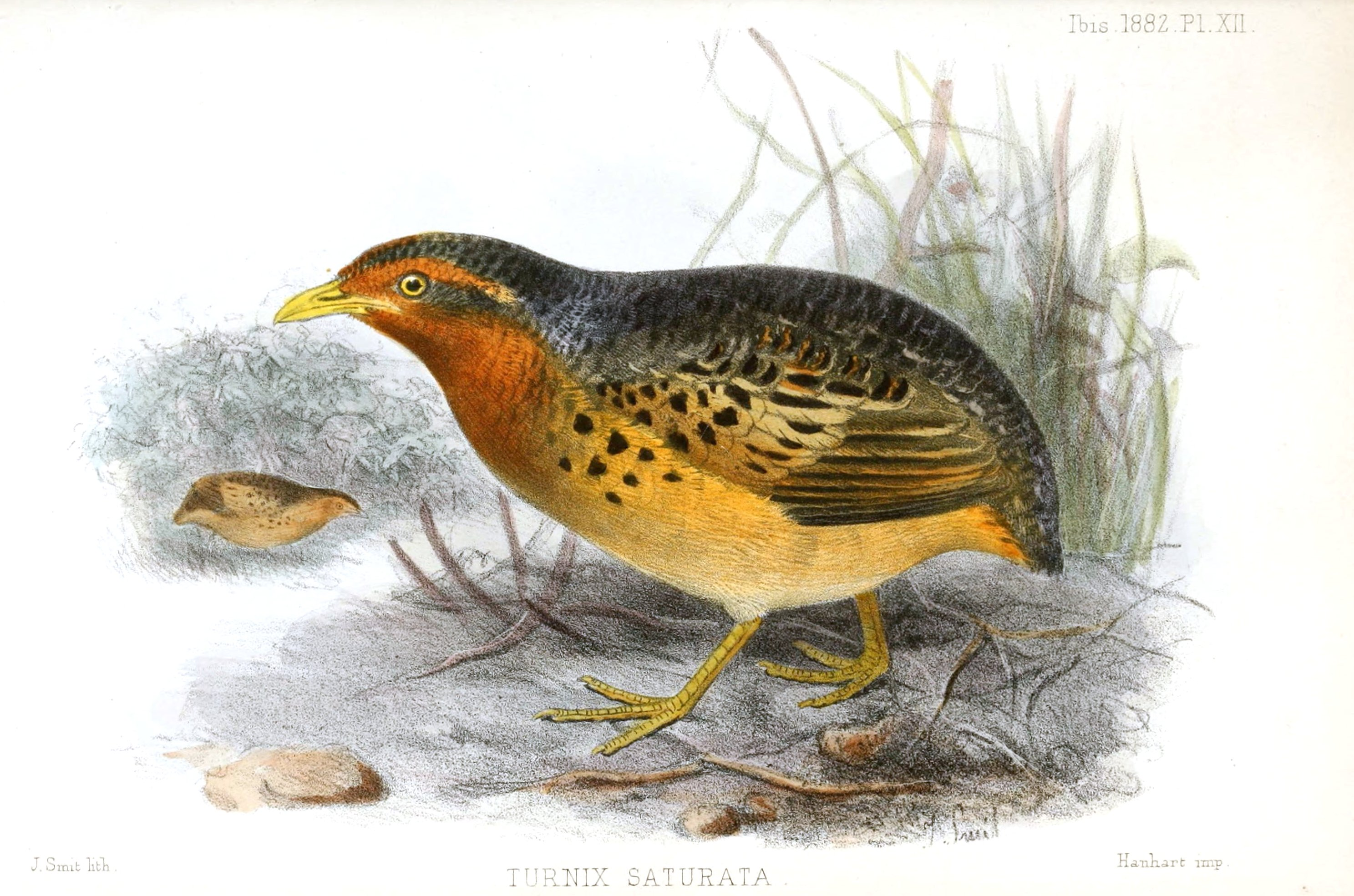 « Turnix saturata » = Turnix maculosus saturatus (Subspecies of Red-backed buttonquail)